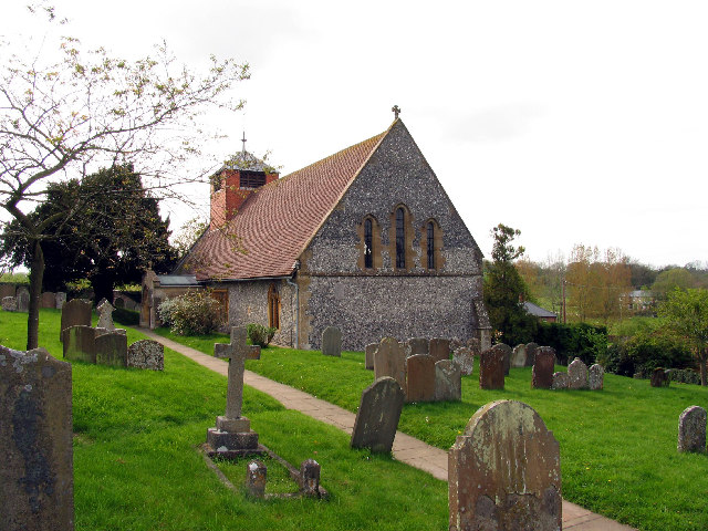 Church of England parish church of St Michael, Inkpen, Berkshire.